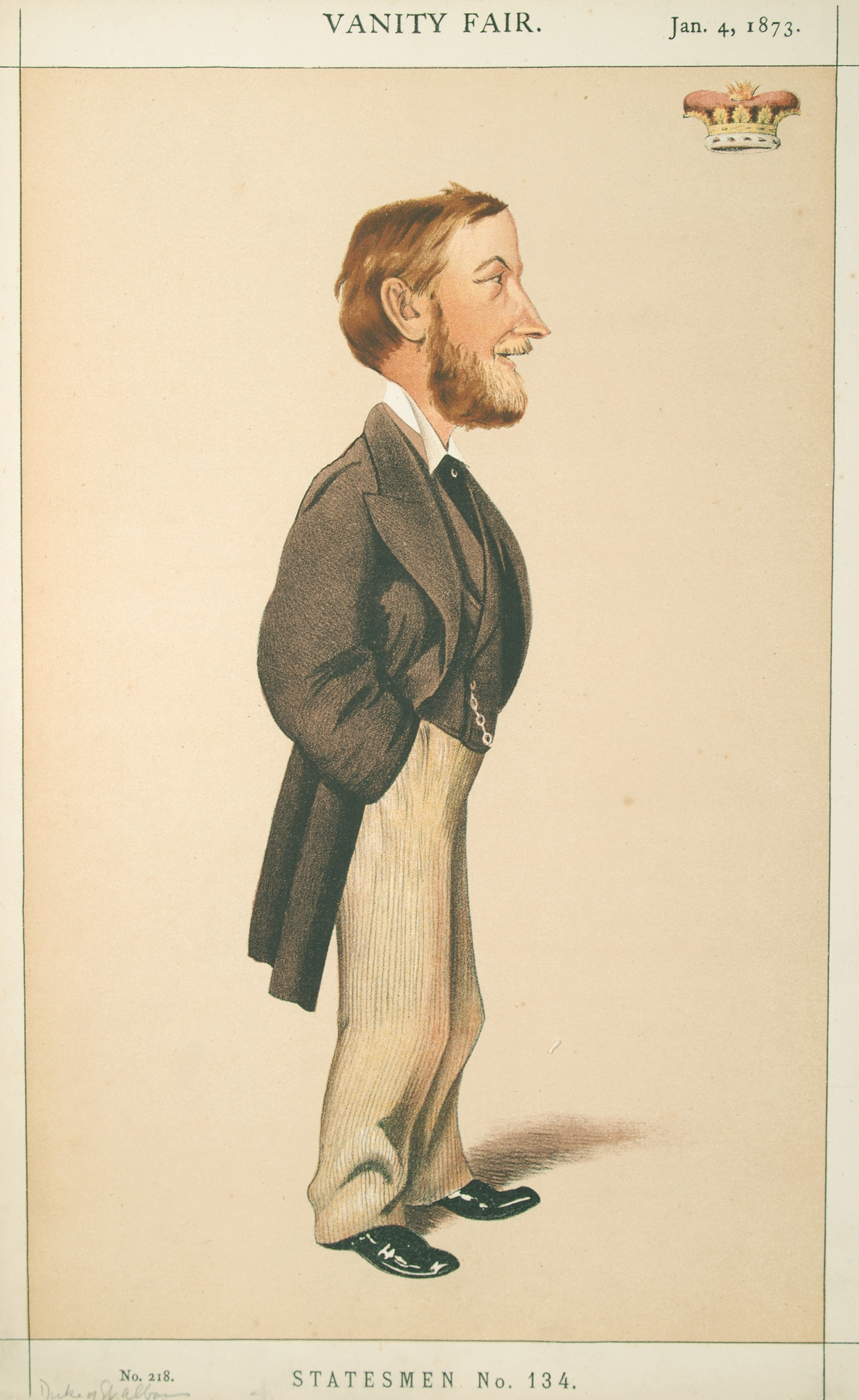 Statesmen No.134: Caricature of The Duke of St Albans. Caption reads: "Hereditary Grand Falconer"